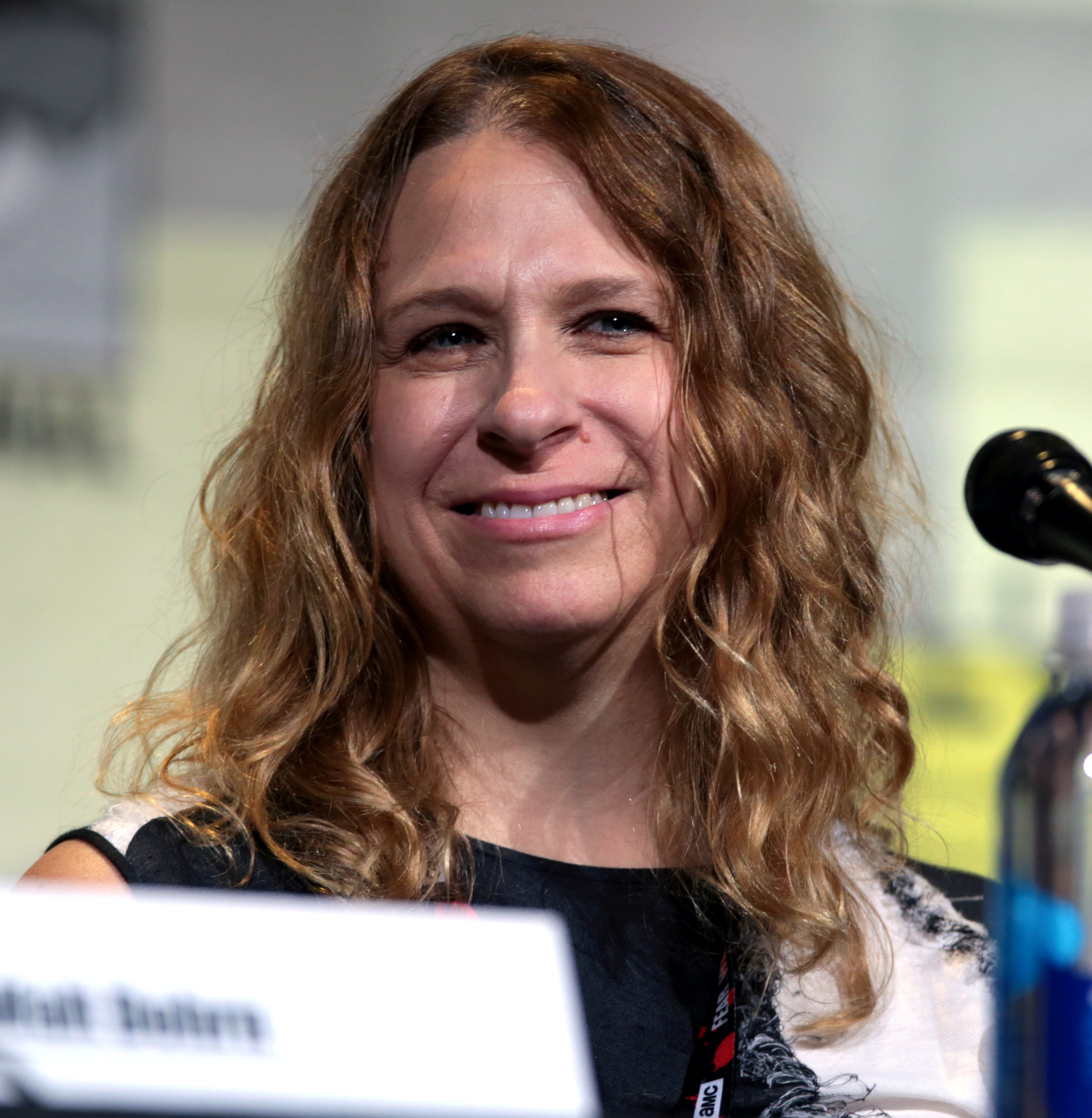 Gina Shay speaking at the 2016 San Diego Comic-Con International in San Diego, California.